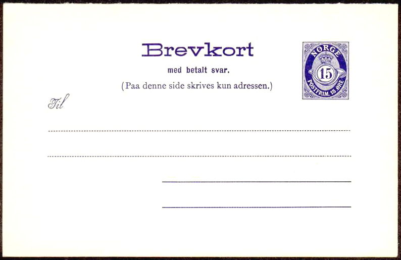 Postcard of Norway stamped with "Posthorn" postage stamp, 15 ore, 1888